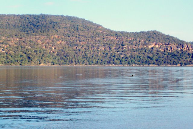 Brisbane Water National Park_from_Bar_Point